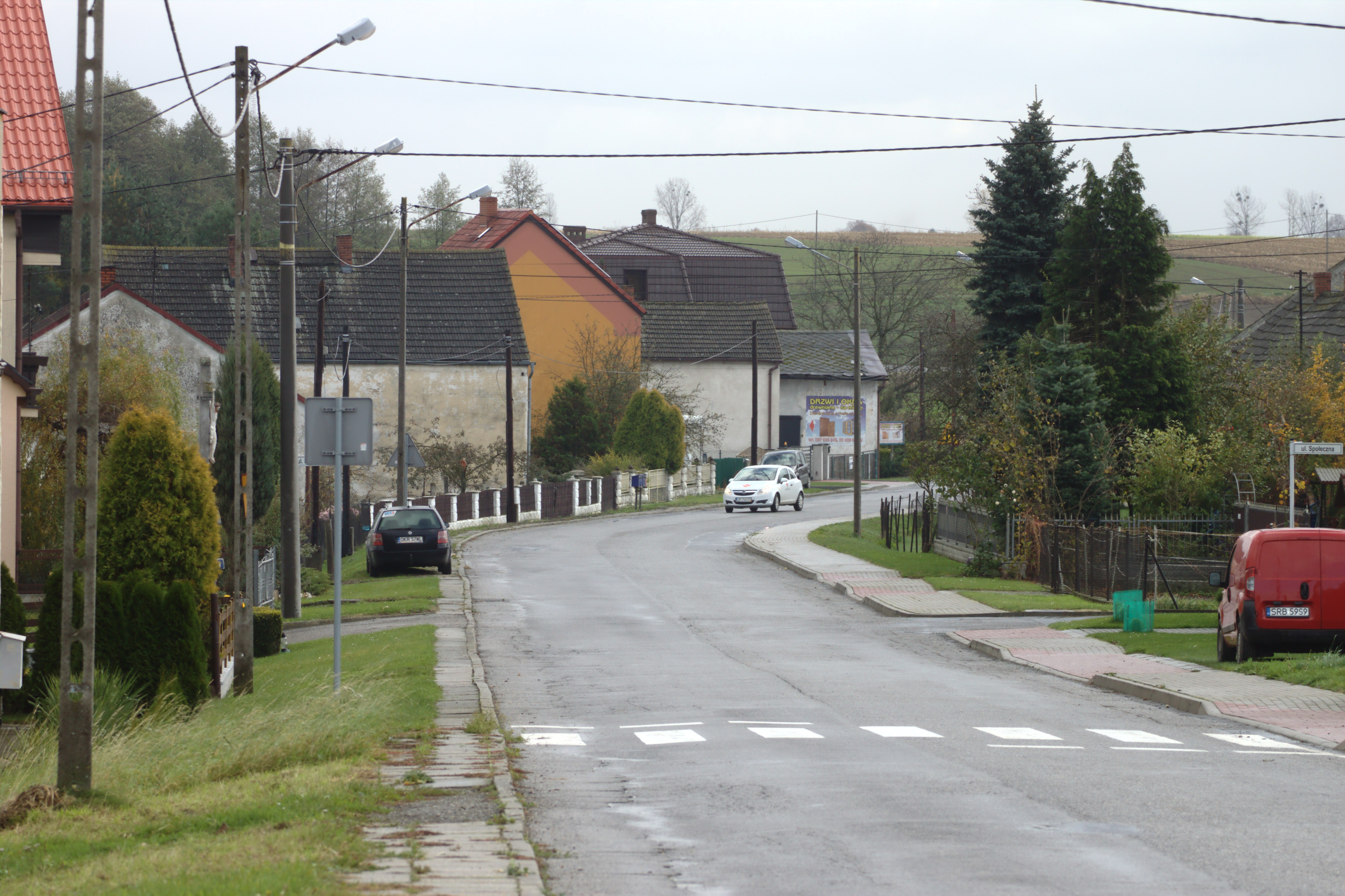 A road the village of in Bolesław, Poland